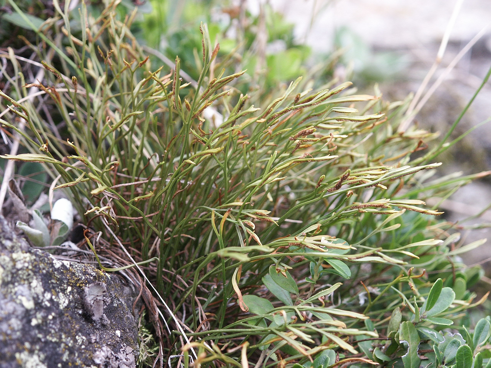 Asplenium septentrionale, Stubaier Alpen, Italy